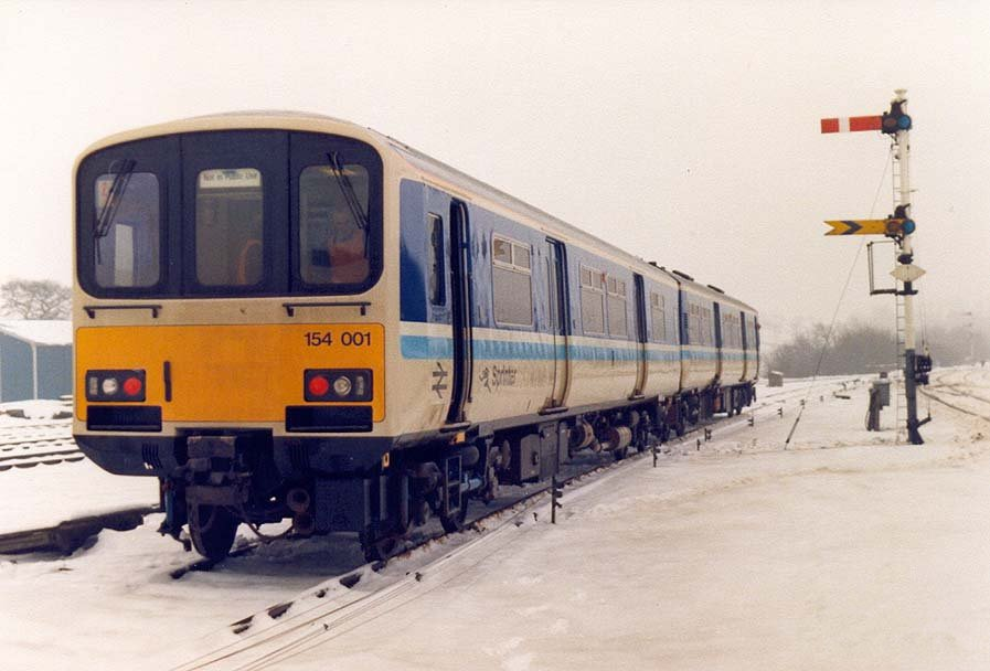 154001 at Manton between Melton Mowbray and Corby whilst on test